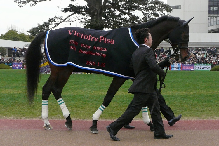 Victoire-Pisa20120115